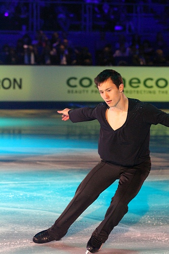 Patrick Chan during his exhibition in Nice, 2012 World Championships